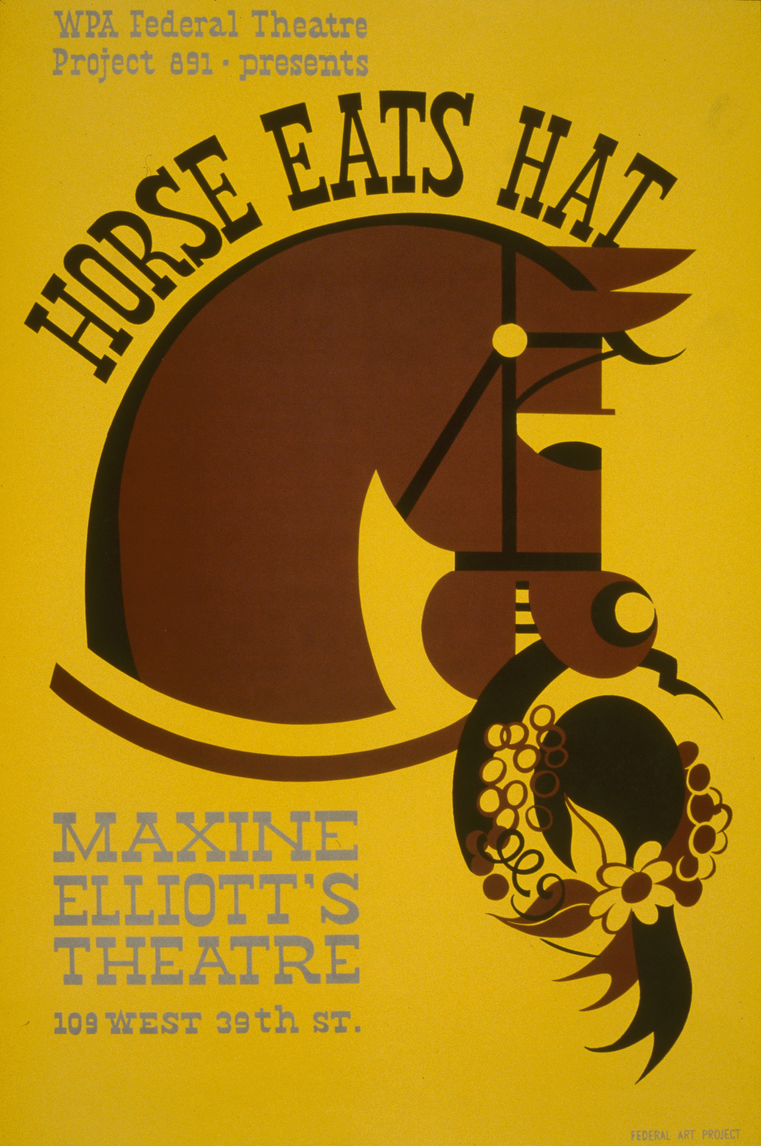 Facsimile of color silkscreen poster for Federal Theatre Project presentation of "Horse Eats Hat" by Edwin Denby (1903-1983) after Eugène Labiche (1815-188) at the Maxine Elliott Theatre, 109 West 39th Street, New York City.